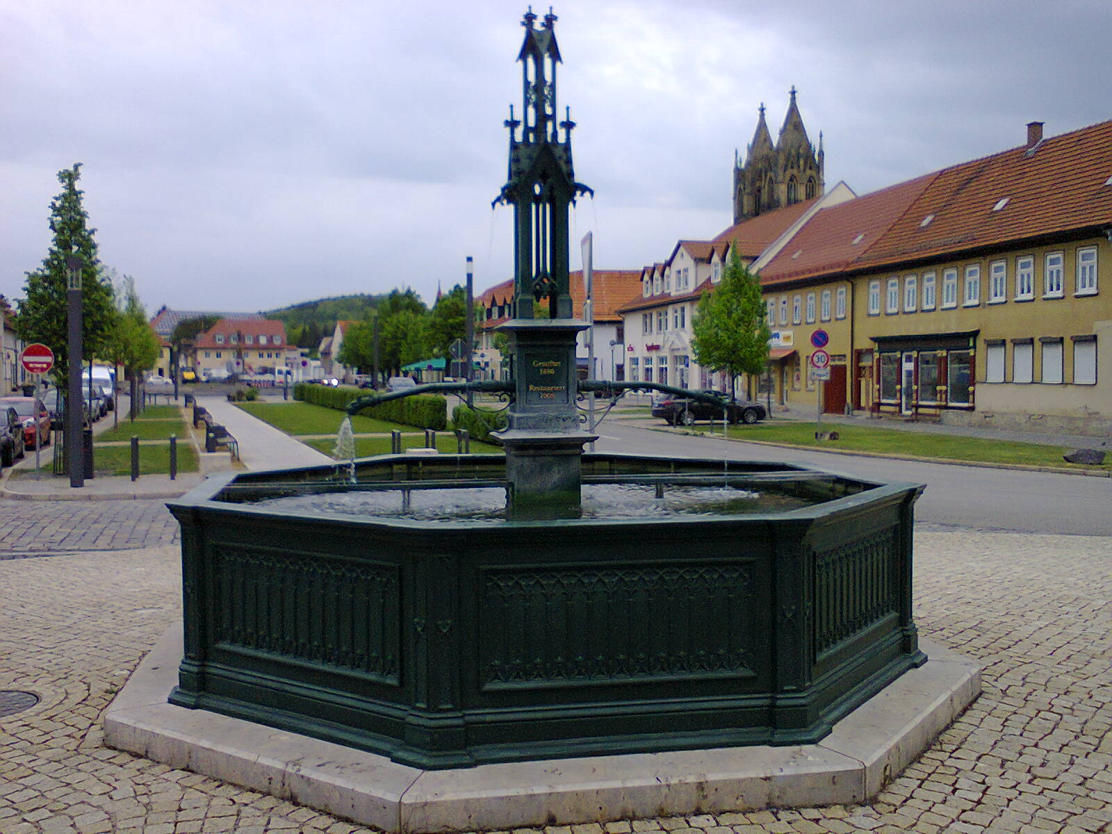 Eckholdtsbrunnen, Stadtilm